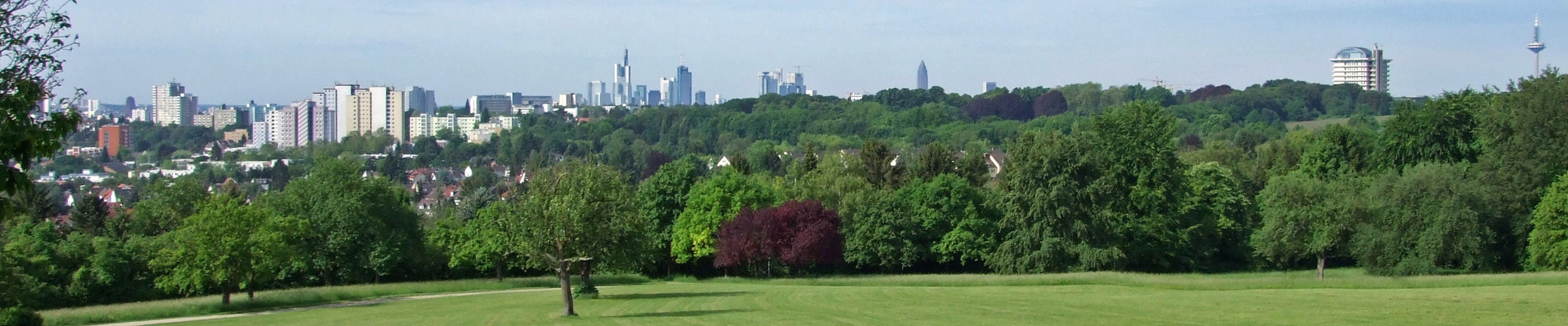 panorama of Frankfurt am Main (Seckbach, Bornheim , Innenstadt) from "Lohrberg"